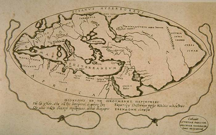 World map according to ideas by Posidonius (150-130 B.C.), drawn by 16th century cartographers Petrus Bertius & Melchior Tavernier in 1628. Many of the details in this map couldn't have been known by Posidonius, rather, Bertius and Tavernier show Posidonius' ideas about the positions of the continents